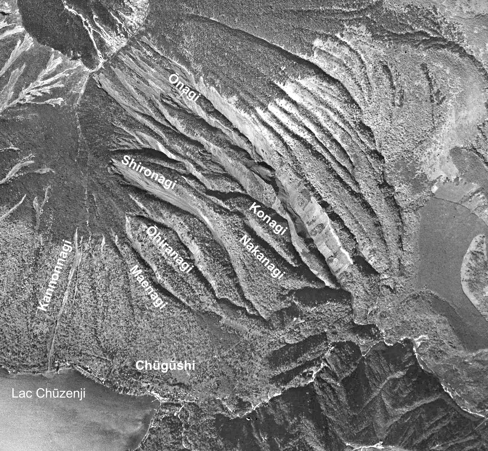 Japan: south-east nagi on mount Nantai (Nikkō city, Tochigi prefecture).